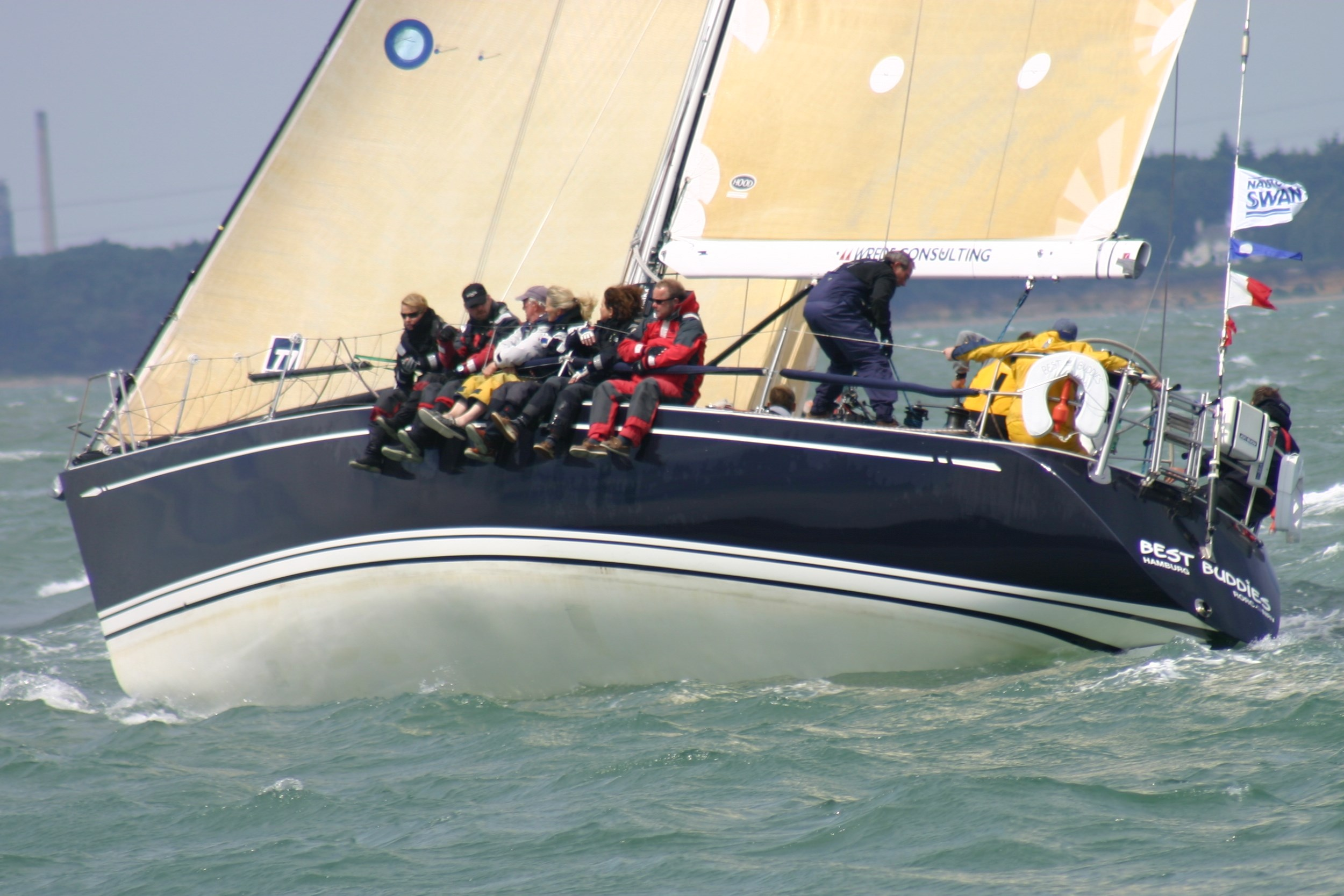 Swan 441 BestBuddies GER4908 at the 2011 Swan Europeans in Cowes (GBR) held by the Royal Yacht Squadron